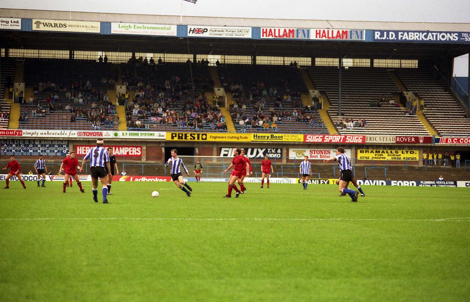 The Leppings Lane Stand at Hillsborough in 1991, near to Parson Cross, Sheffield, Great Britain.